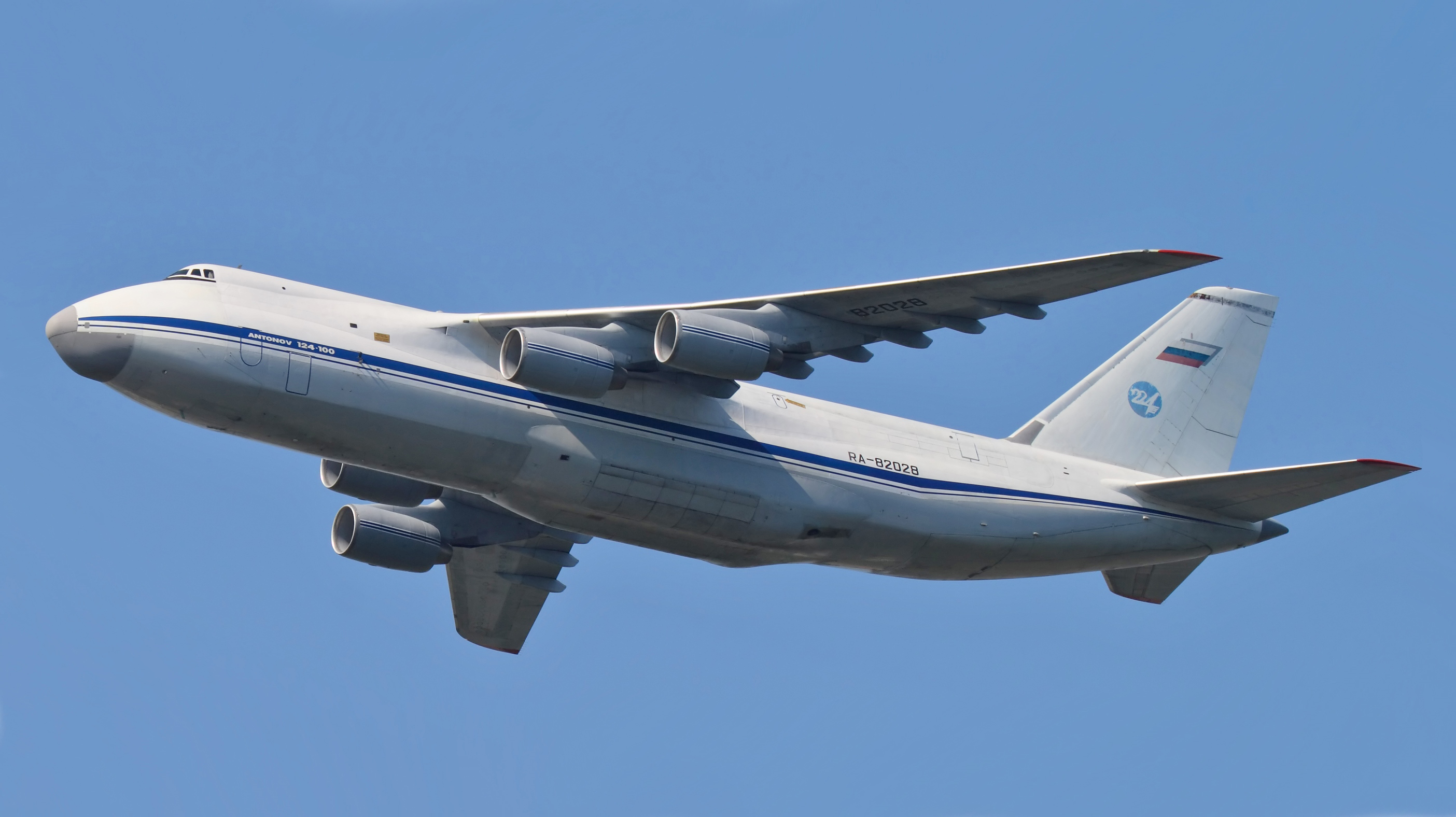 An Antonov An-124-100 (RA-82028) of 224th Flight Unit inflight with 2 Sukhoi Su-27s of the Falcons of Russia aerobatic team, as part of the flyover contingent for the 2010 Moscow Victory Day Parade.